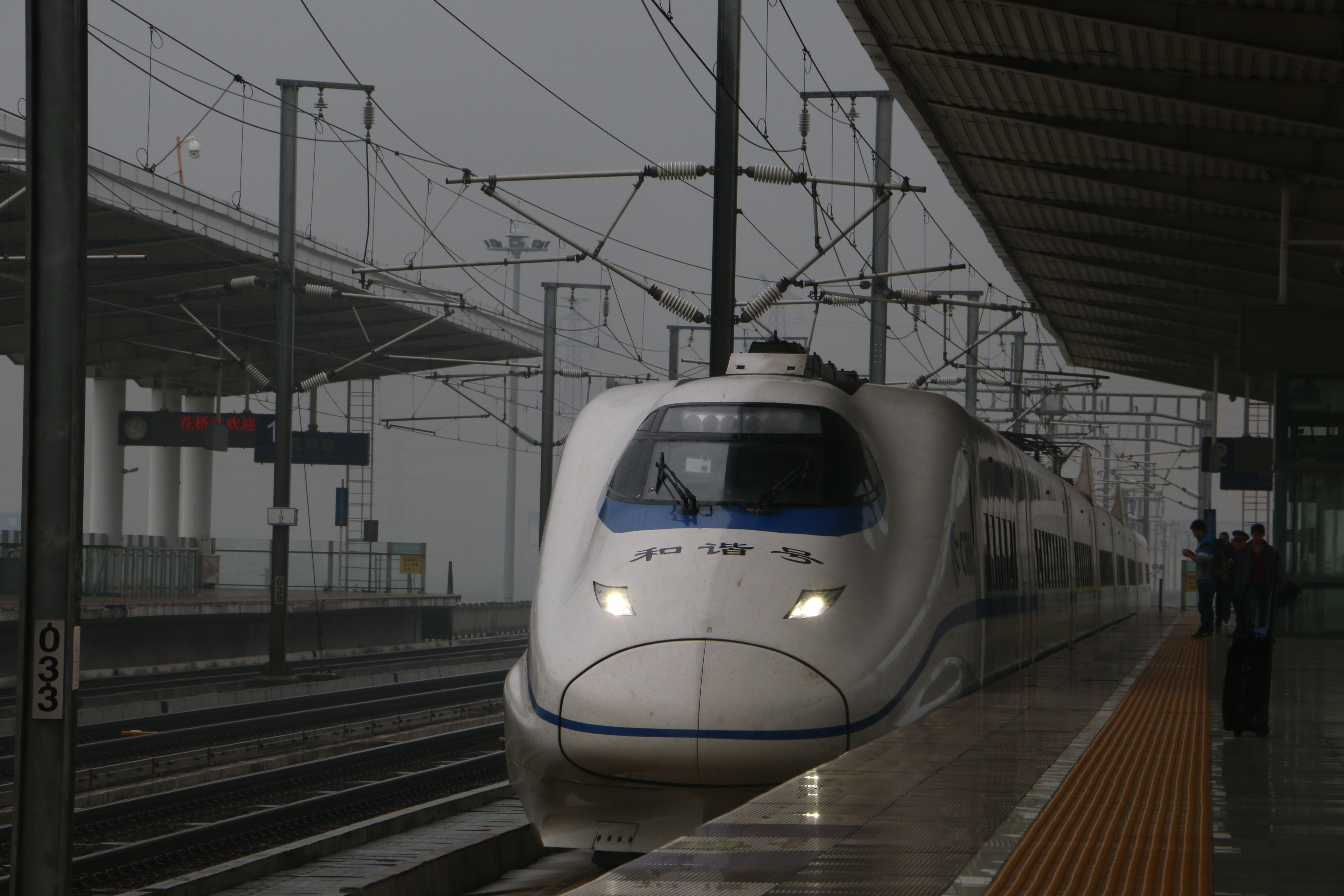 201604 G7057 enters Huaqiao Station